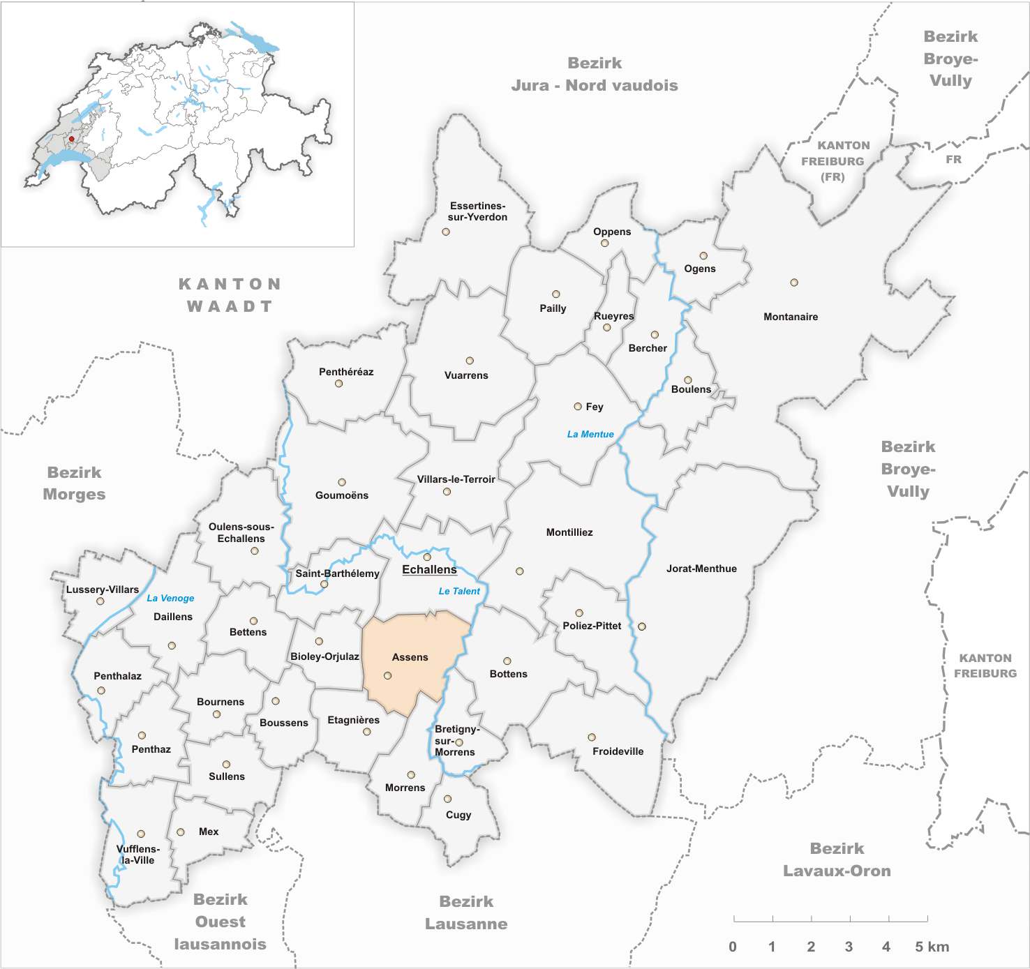 Municipality Assens